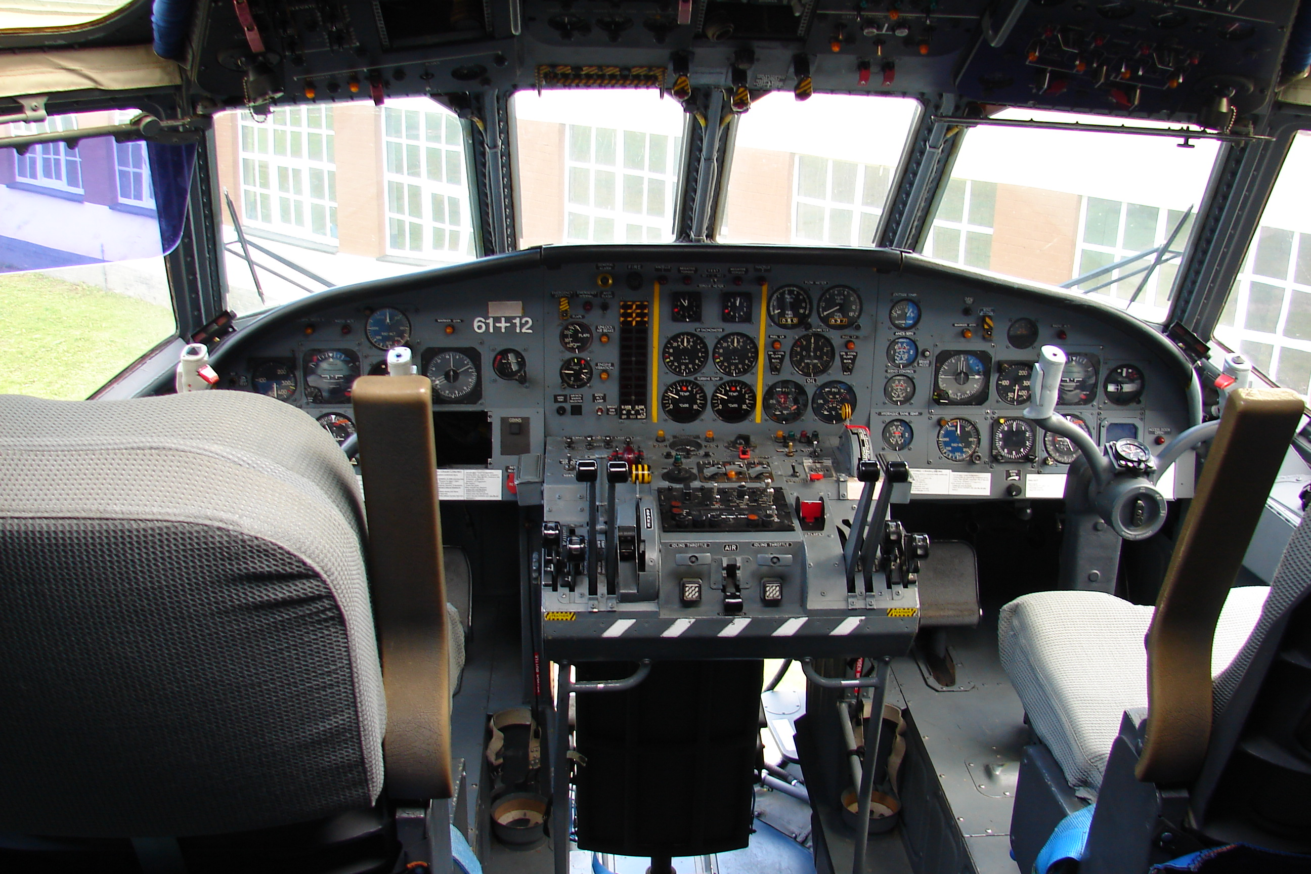 Breguet Atlantic Cockpit